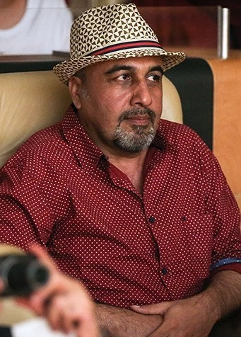 Reza Attaran